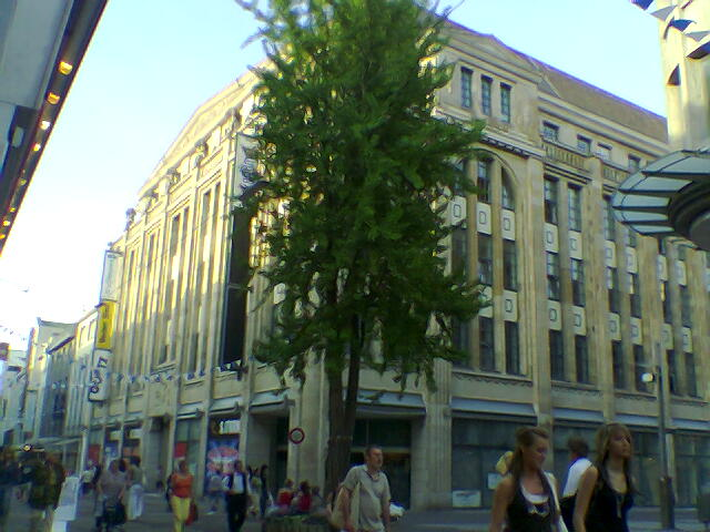 The warehouse "Kortum" in Bochum, Germany - view from the Kortumstrasse